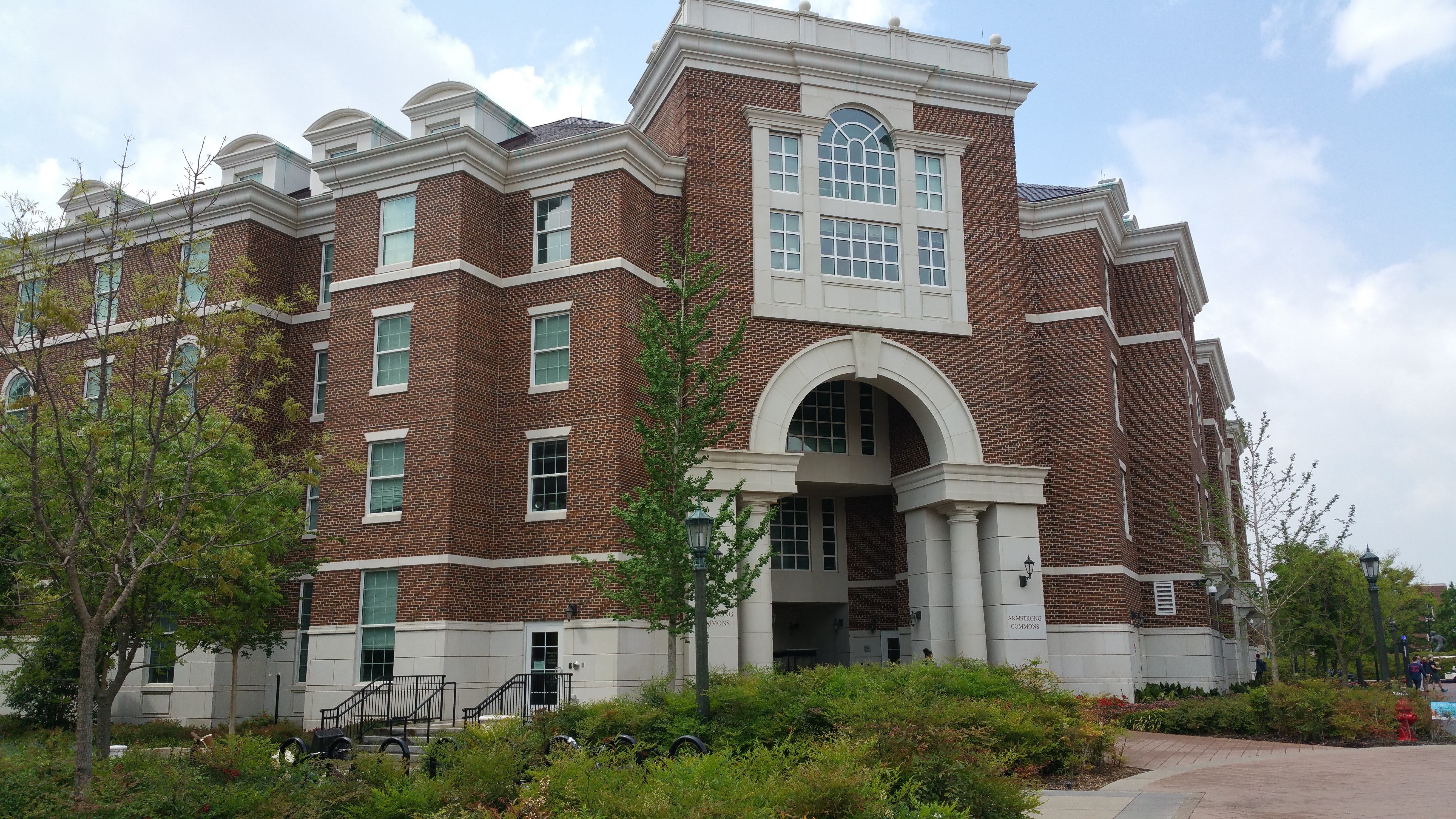 Amstrong Commons at Southern Methodist University, one of five commons opened in 2014